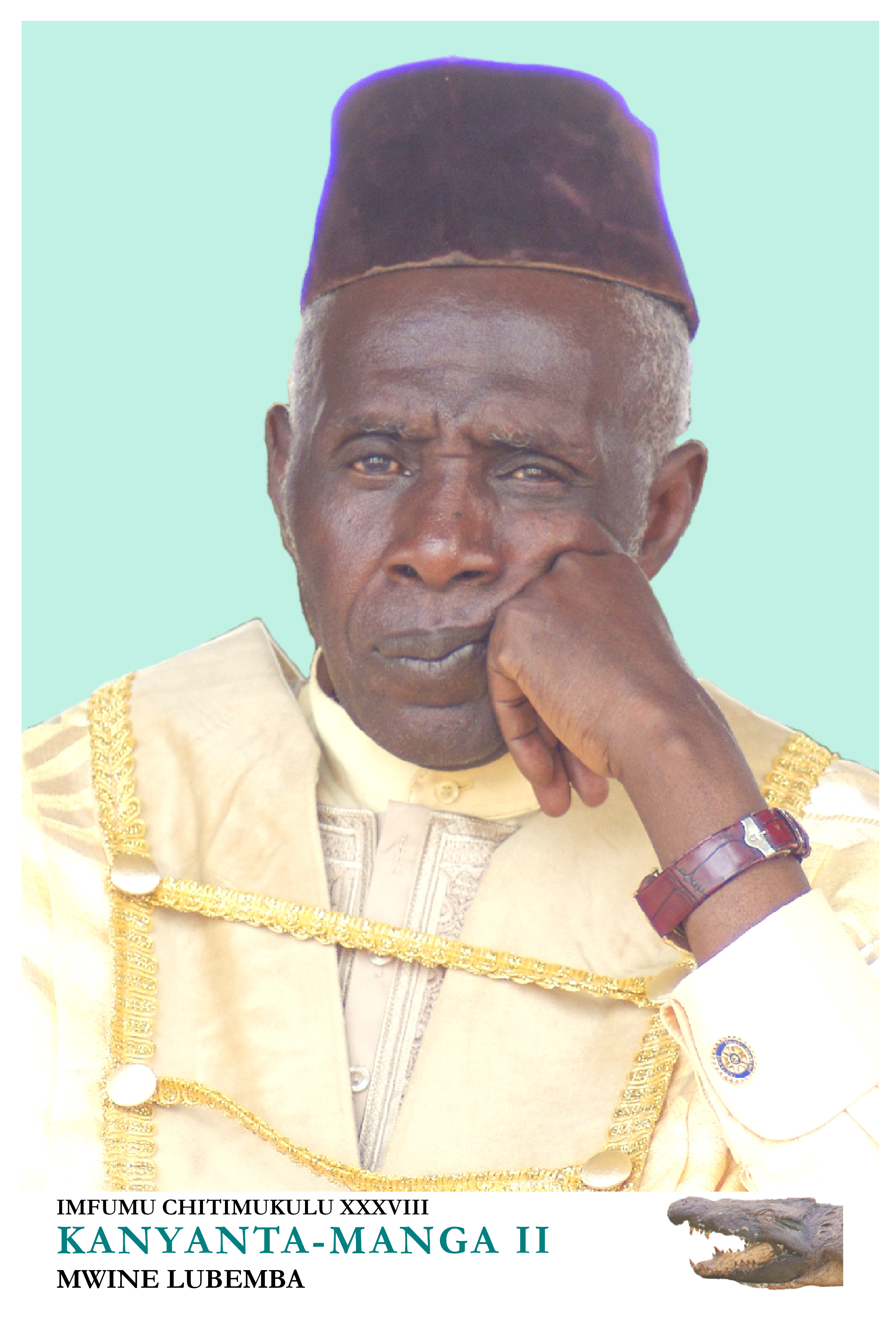 The current Mwine Lubemba, Chitimukulu (2013- )